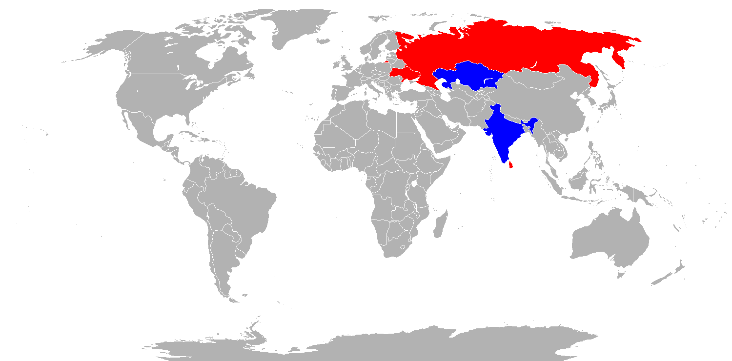 World map of Mikoyan-Gurevich MiG-27 operators